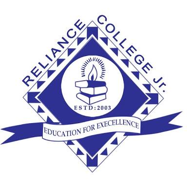 This is my own source